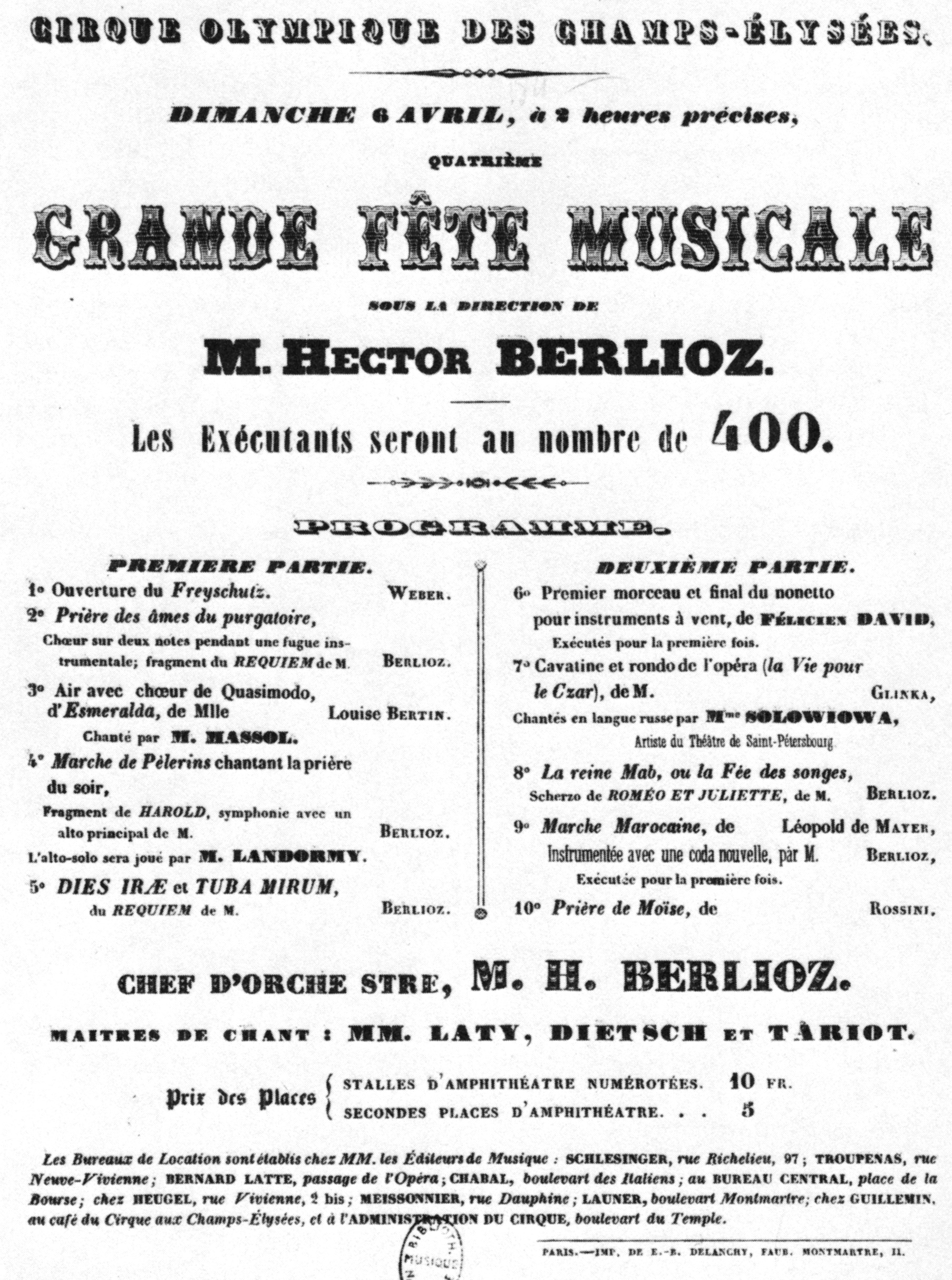 Handbill for a concert conducted by the French composer Hector Berlioz at the Cirque Olympique des Champs-Élysées on 6 April 1845